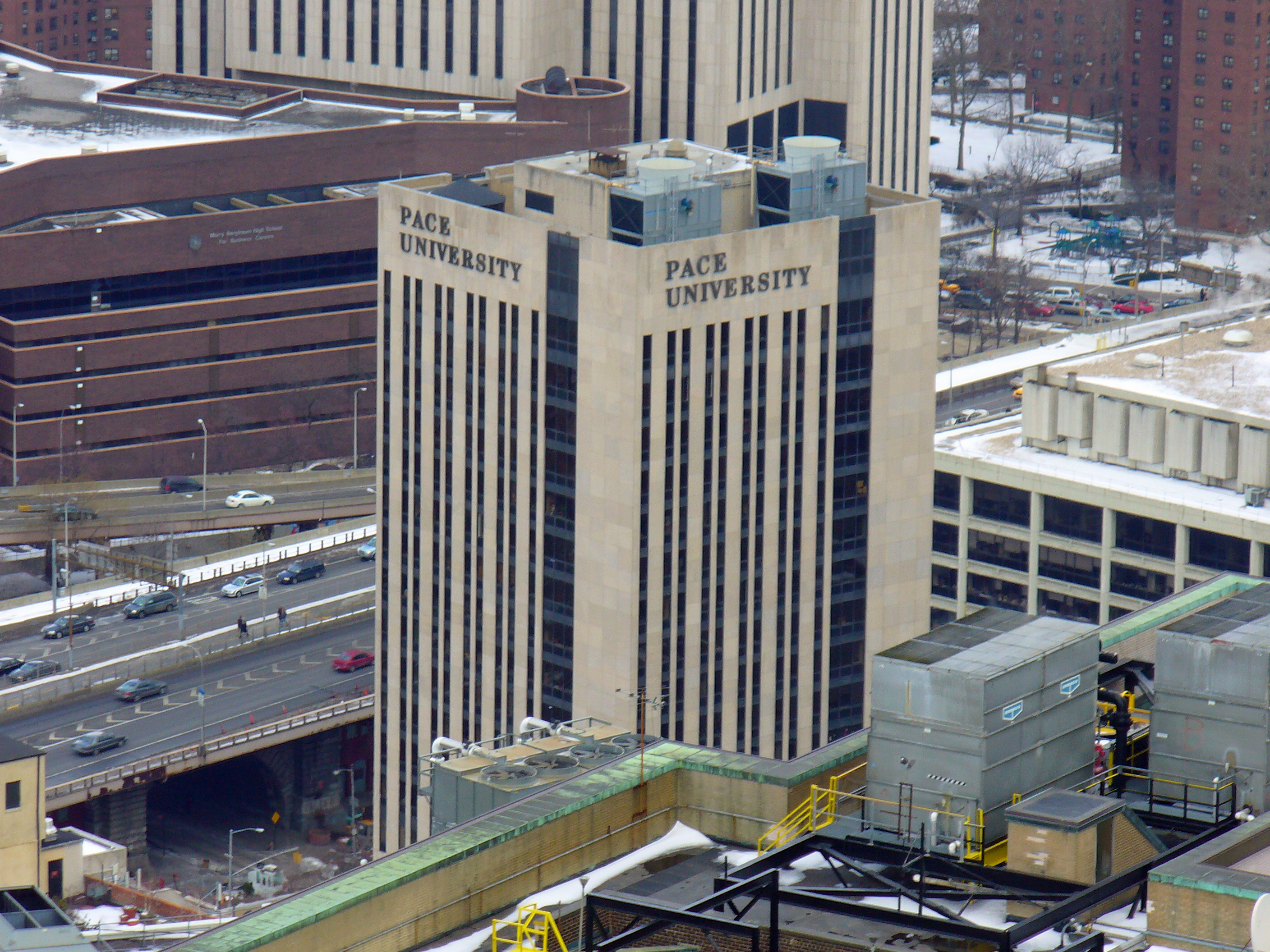 Maria's Tower One Place Plaza New York